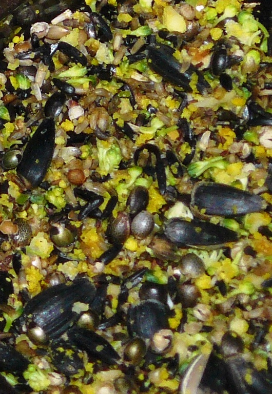 eggfood